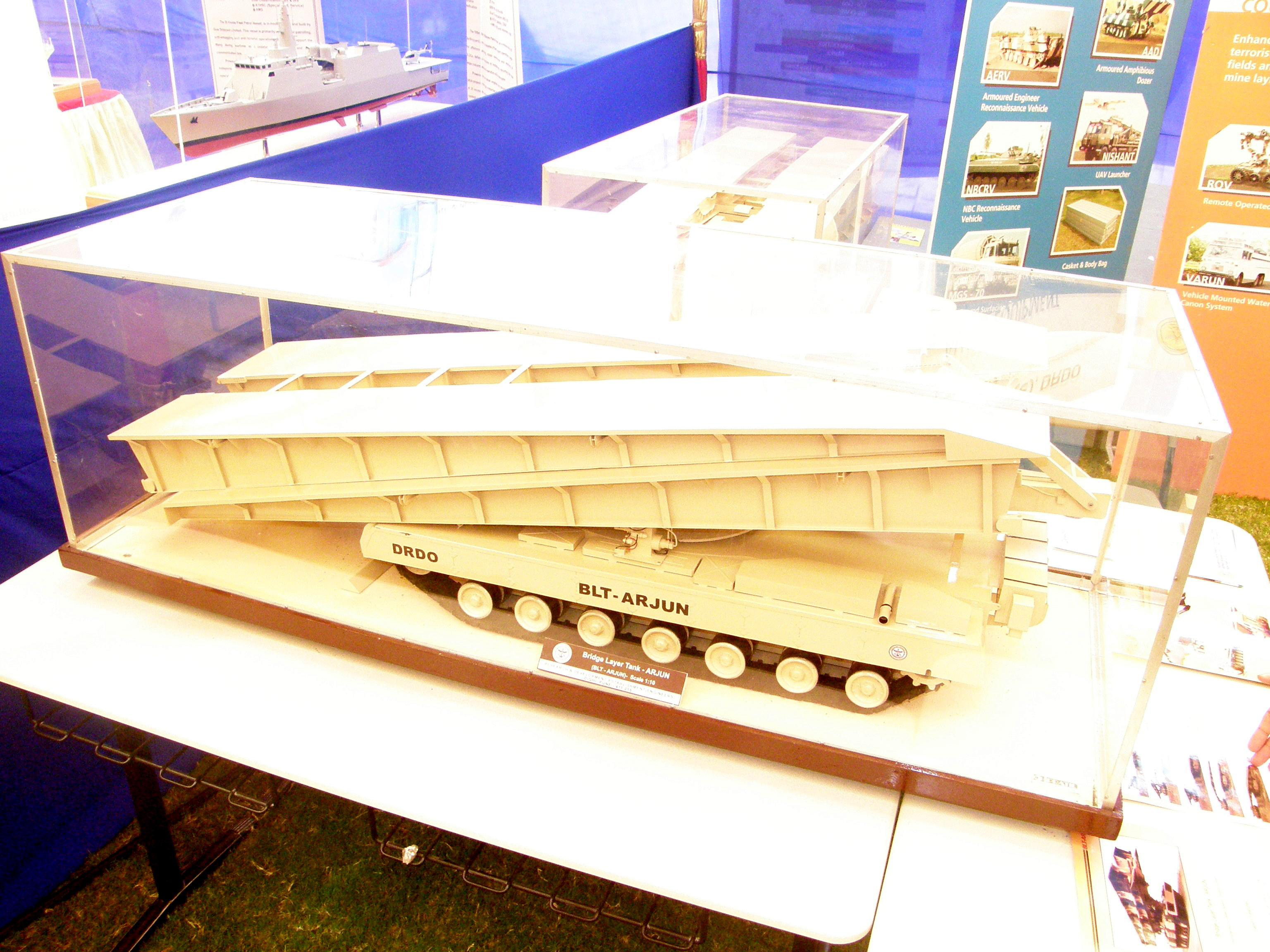 DRDO Arjun BridgeLayer